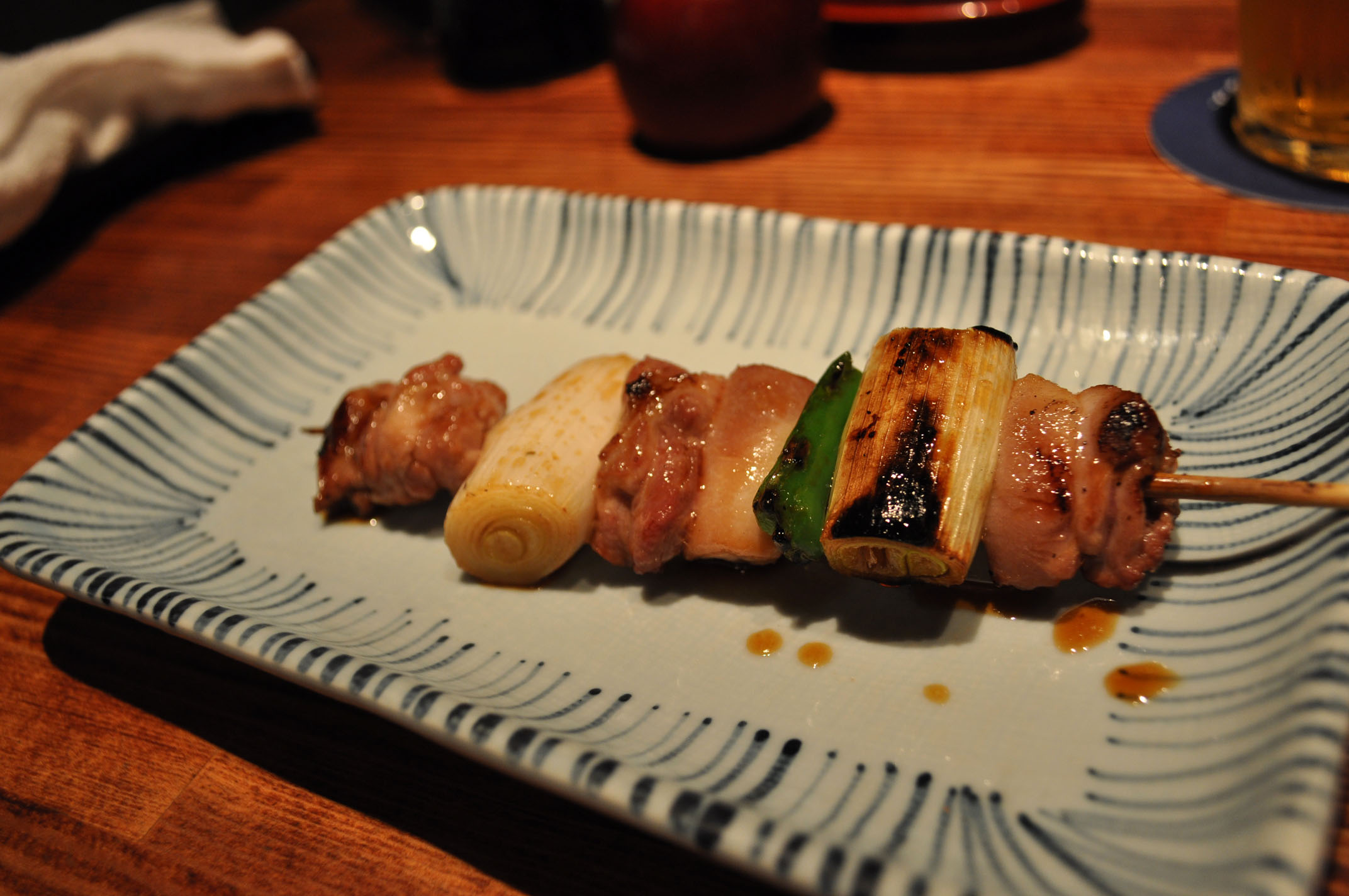 Negima (chicken thigh and scallion) yakitori